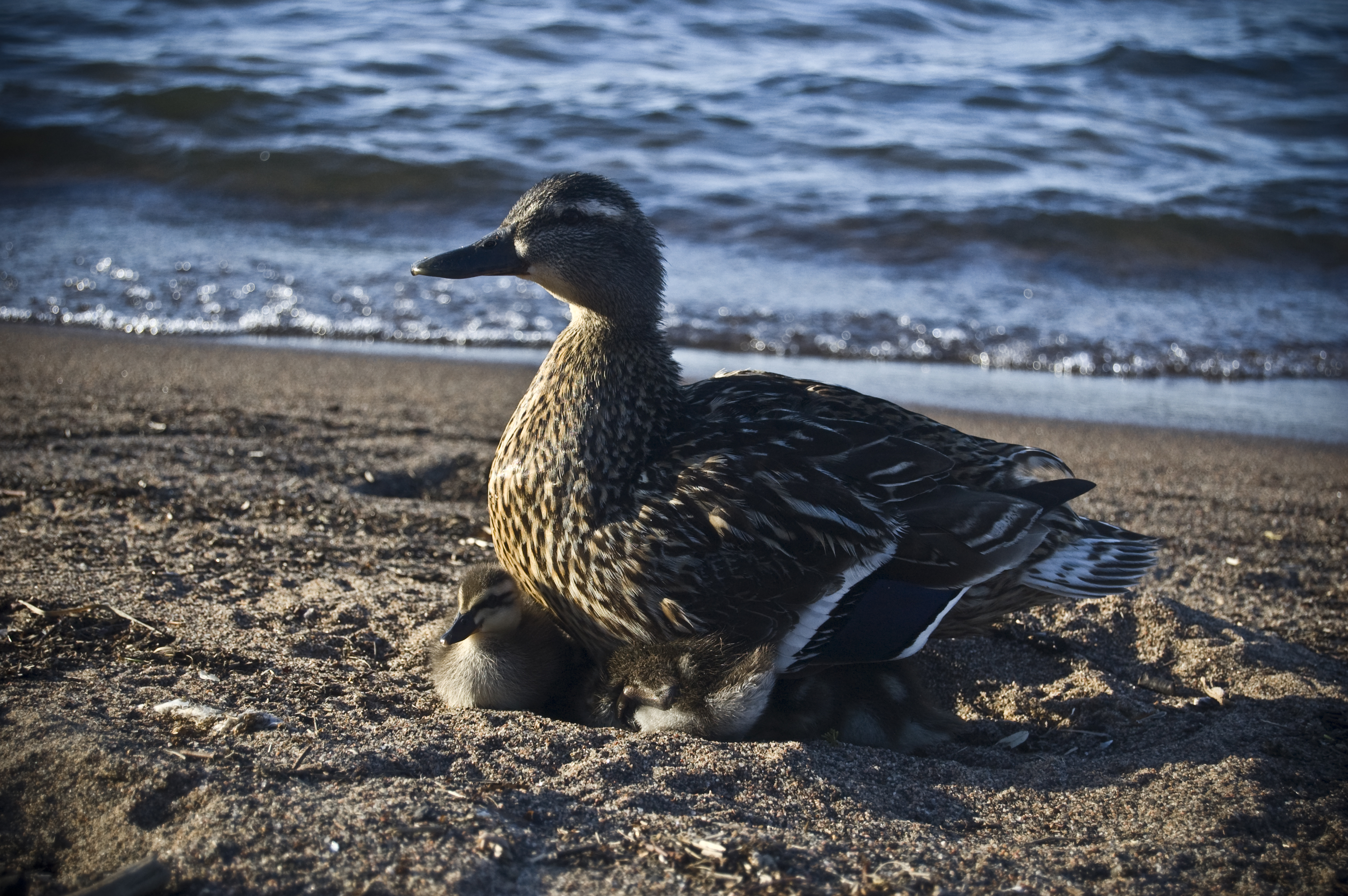 Female mallard with ducklings.